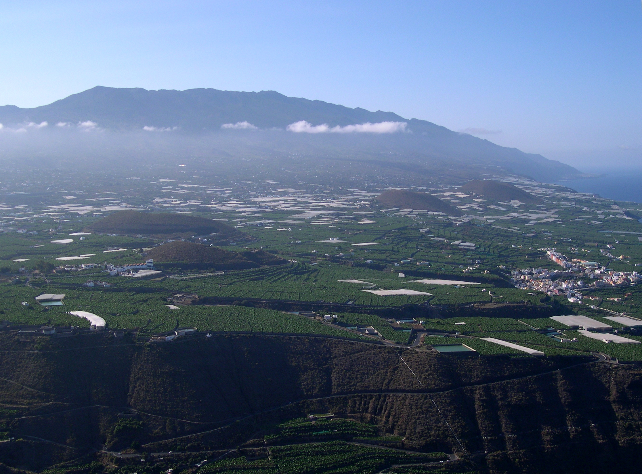 Plantation banana